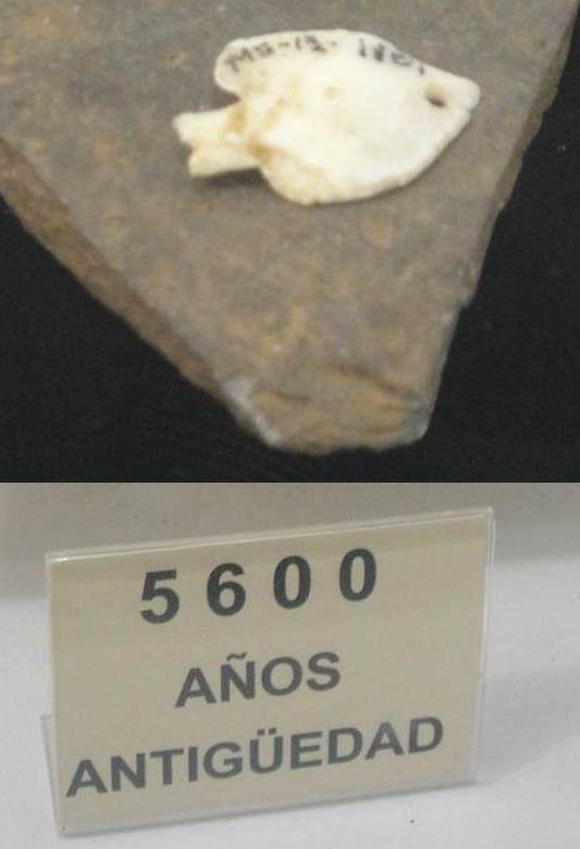 5,600 year old fish ornament, Museo El Ceibo, Ometepe, Nicaragua.